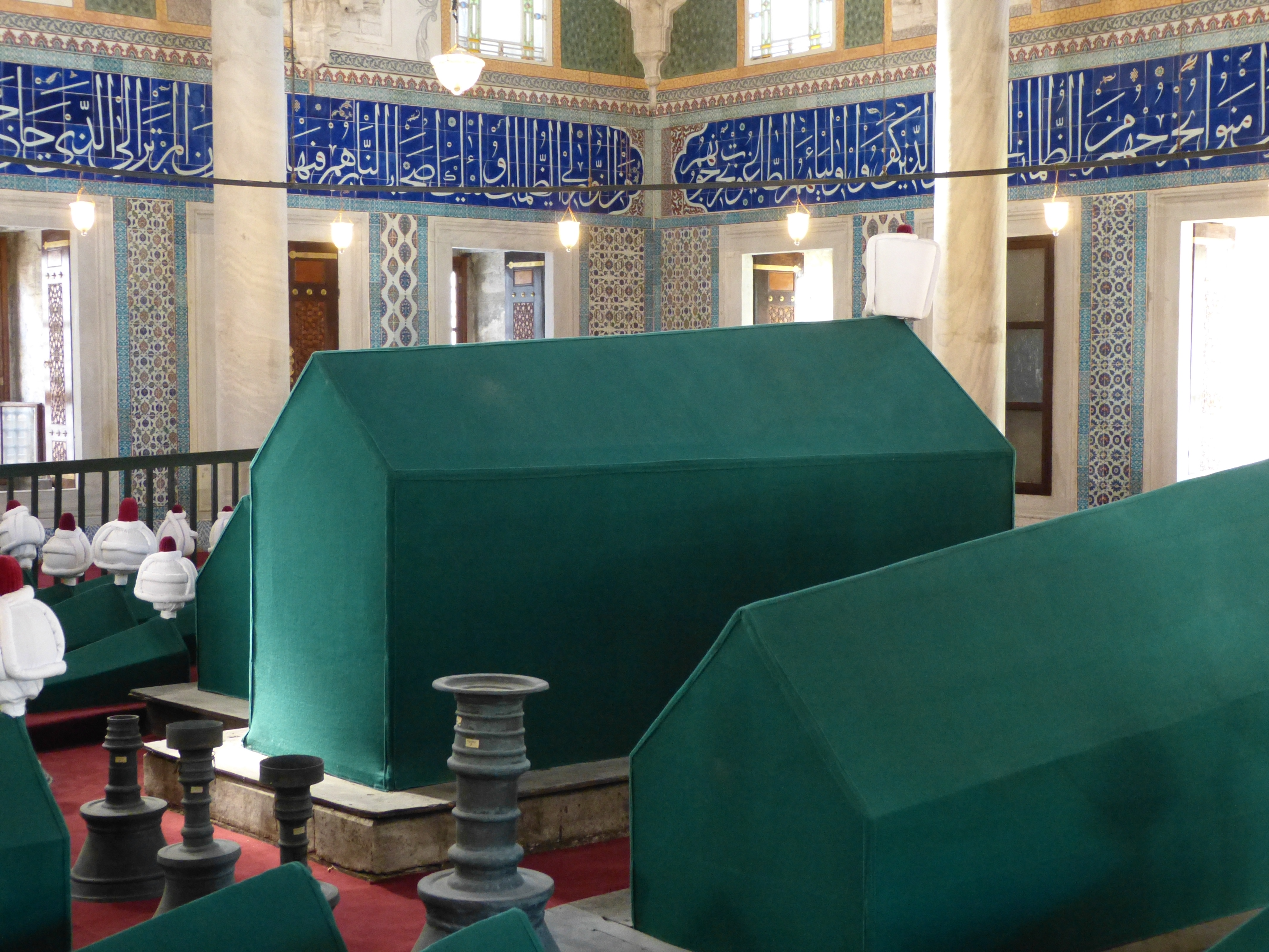 Türbe (Tomb) of Sultan Selim II. (1524–1574)